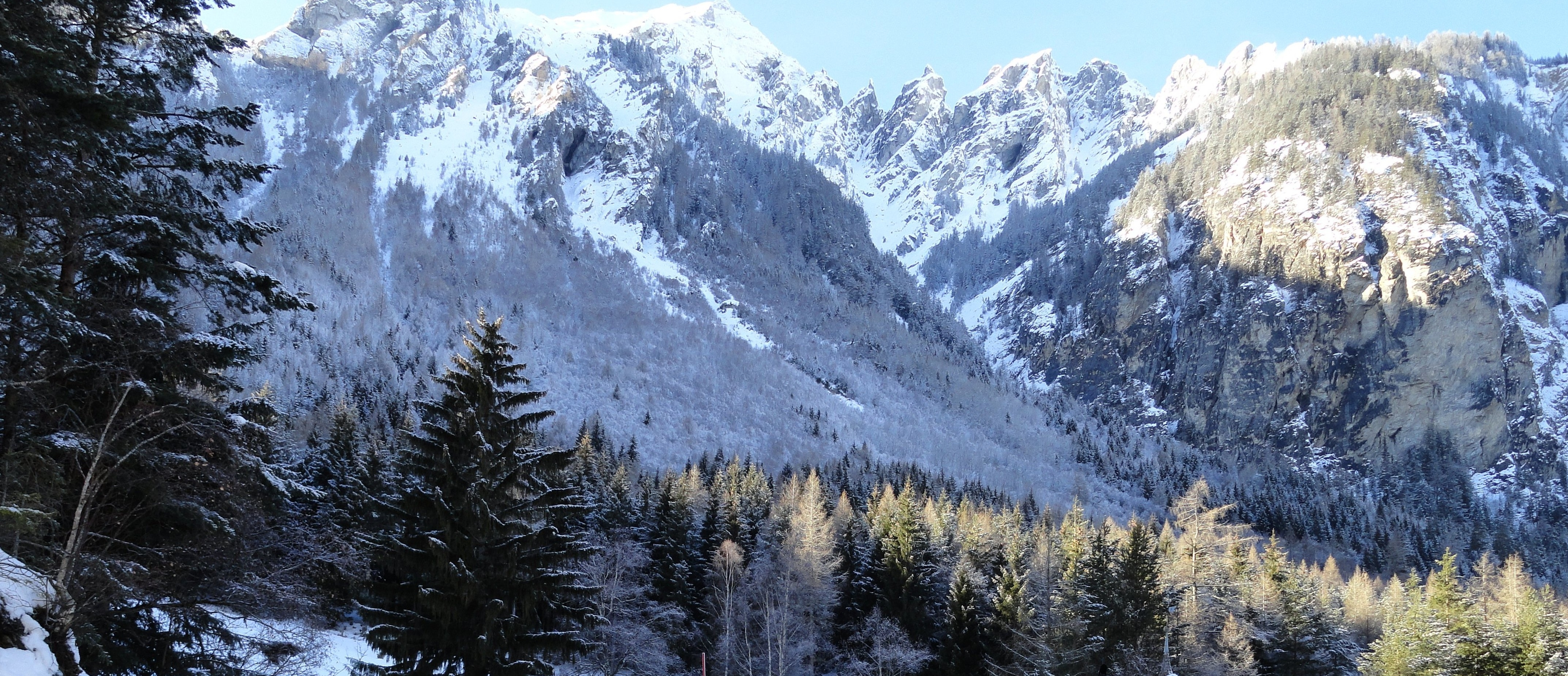 Detail from WP:Vinadi.jpg: Territory of the historic "Novellaberg", Craista Sura.